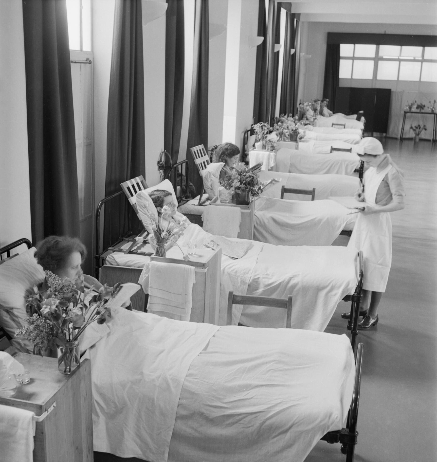 Student Nurse- Life at St Helier Hospital, Carshalton, Surrey, 1943 Student Nurse Joyce Collier at work on one of the wards at St Helier Hospital, Carshalton. She is entering details of the patients' temperatures onto their charts. Vases of flowers add cheer to the light and airy ward and each bed is equipped with a pair of headphones, so that the occupant can listen to music if they wish.